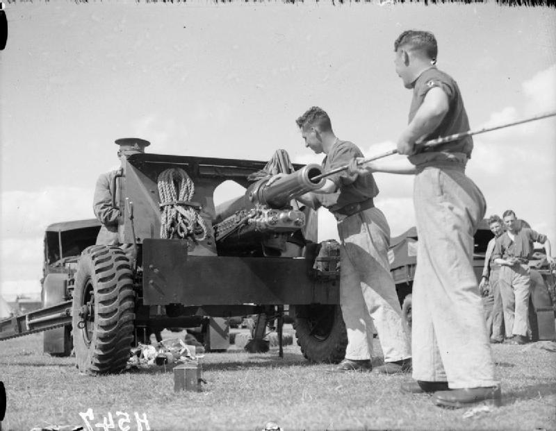 The British Army in the United Kingdom 1939-45 Royal Artillery gunners sponging out a 18/25 pdr Mk V P howitzer during exercises near Basingstoke, 1939.